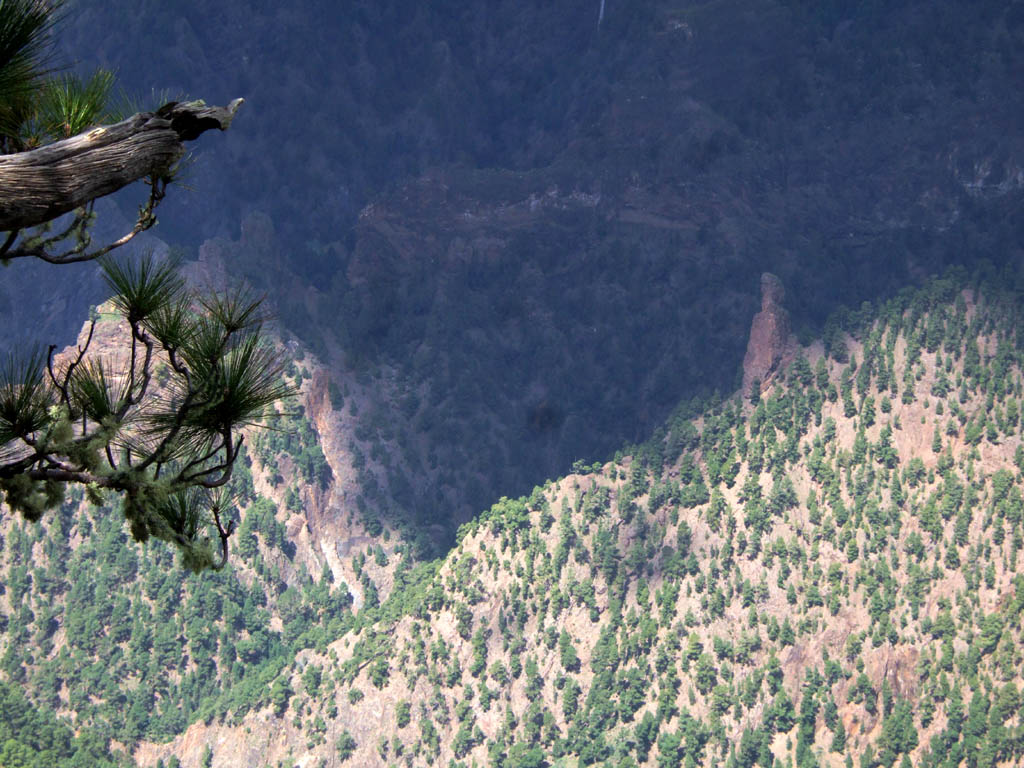 Caldera with Idafe